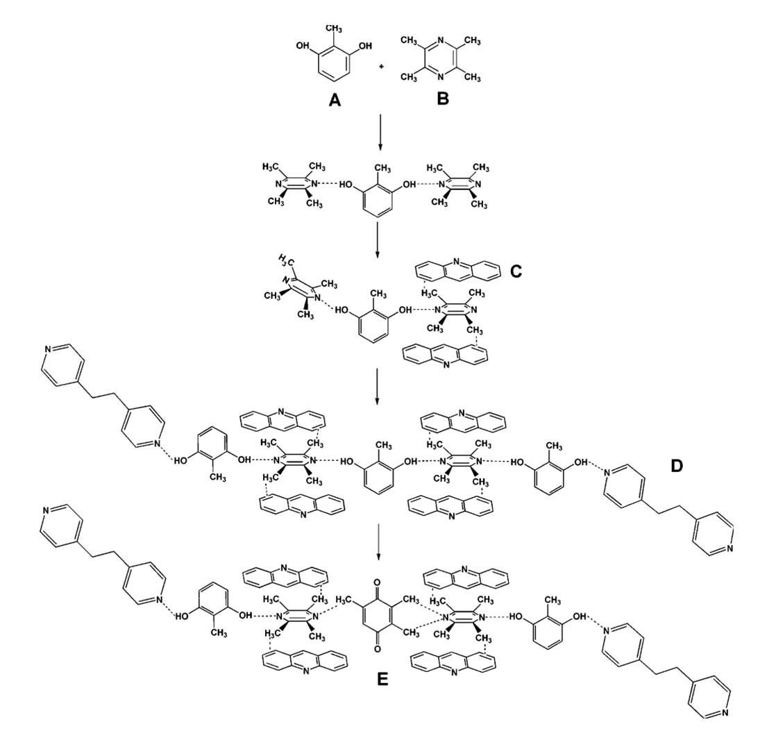 Using retrosynthesis with supramolecular synthons, the crystal engineer can build up increasingly complex structures like this five-component molecular crystal (N. A. Mir, R. Dubey, G. R. Desiraju, IUCrJ, 2016, 3, 96–101).